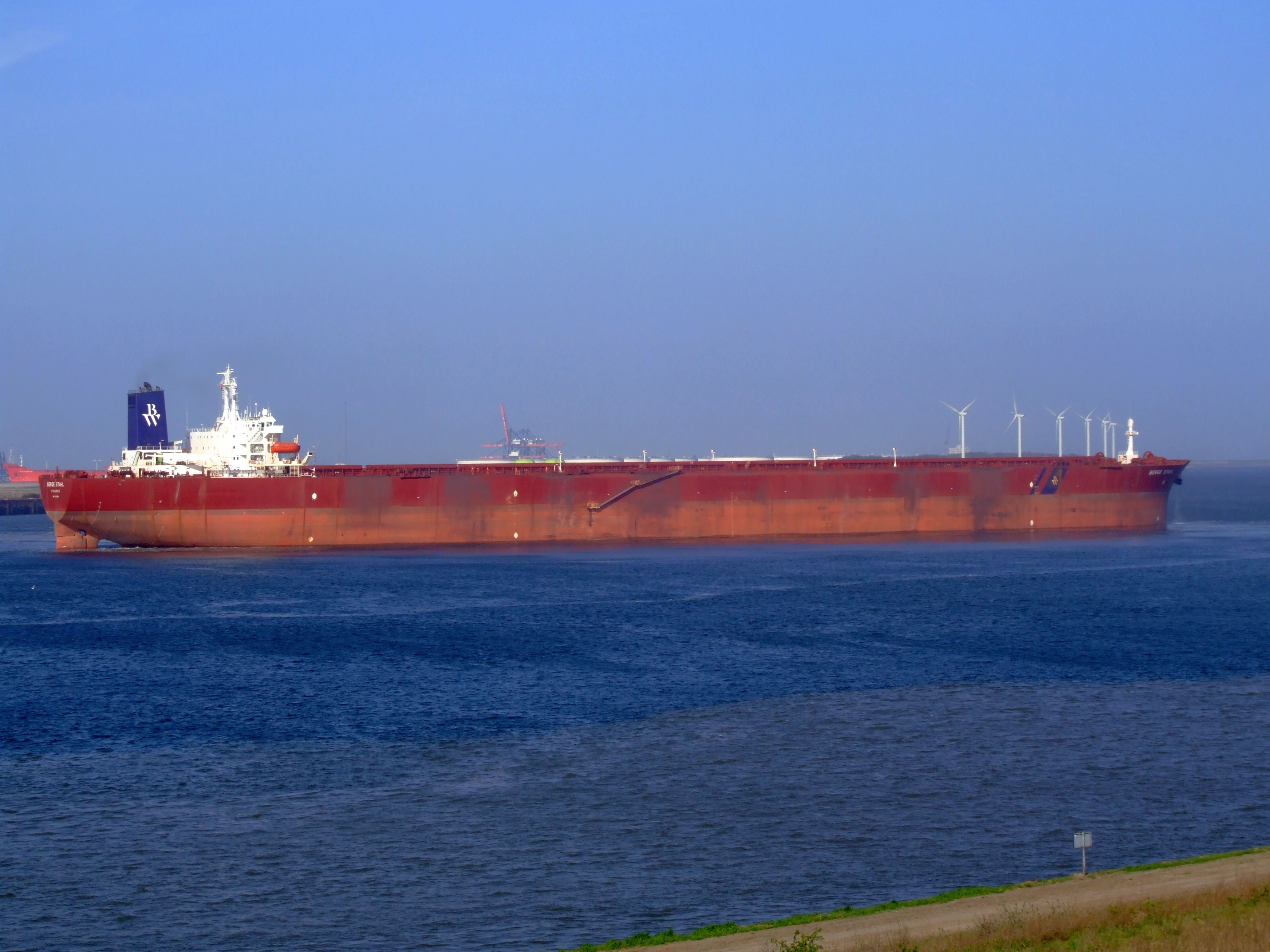 Berge Stahl ready to leave Port of Rotterdam after emptying it's bulk cargo of ore. The Netherlands.